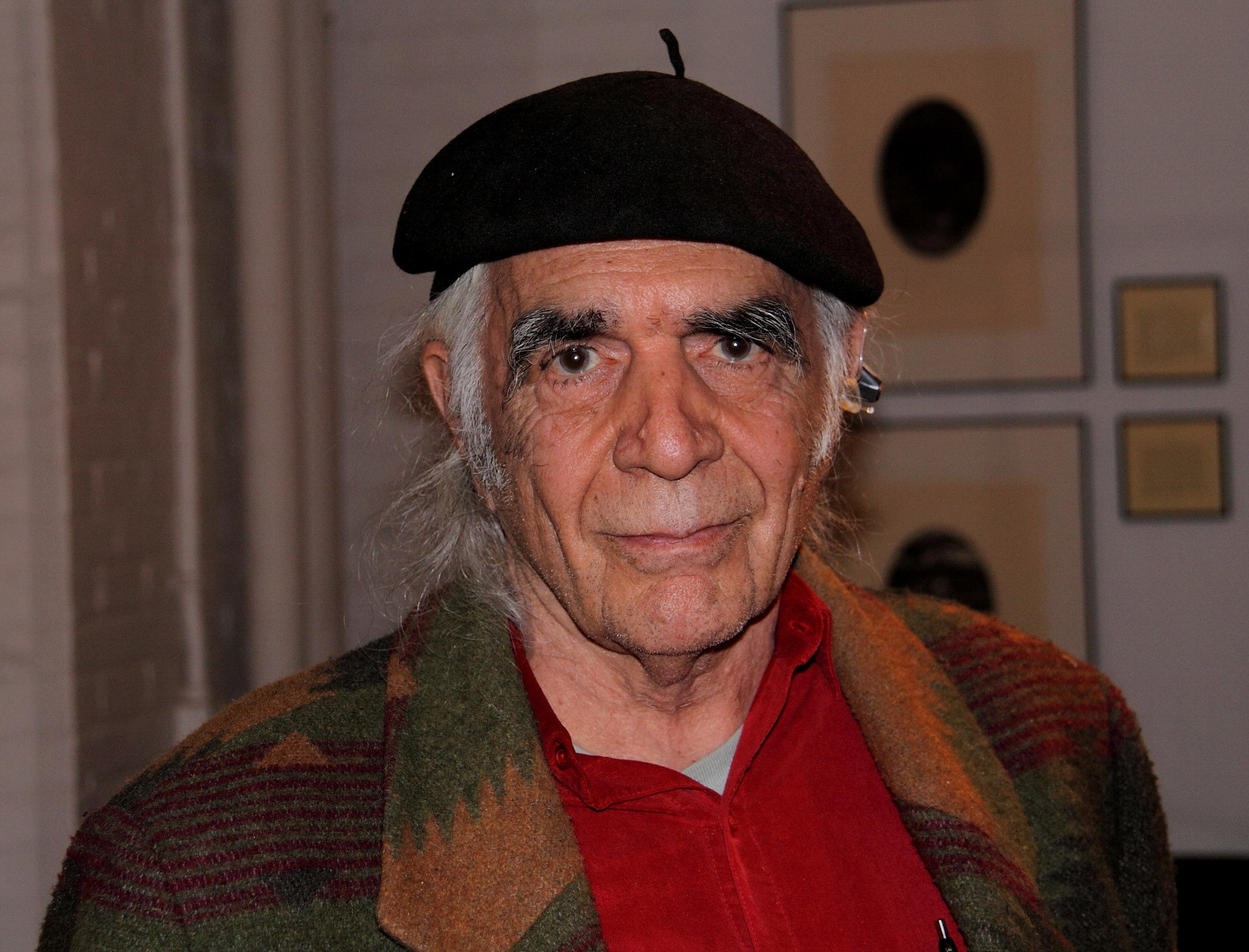 Ramon Sender taken at Arion Press November 16, 2011.